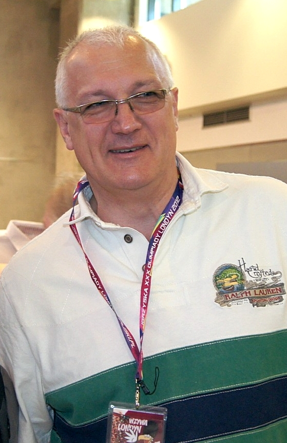 Jerzy Pietrzyk, polish athlete